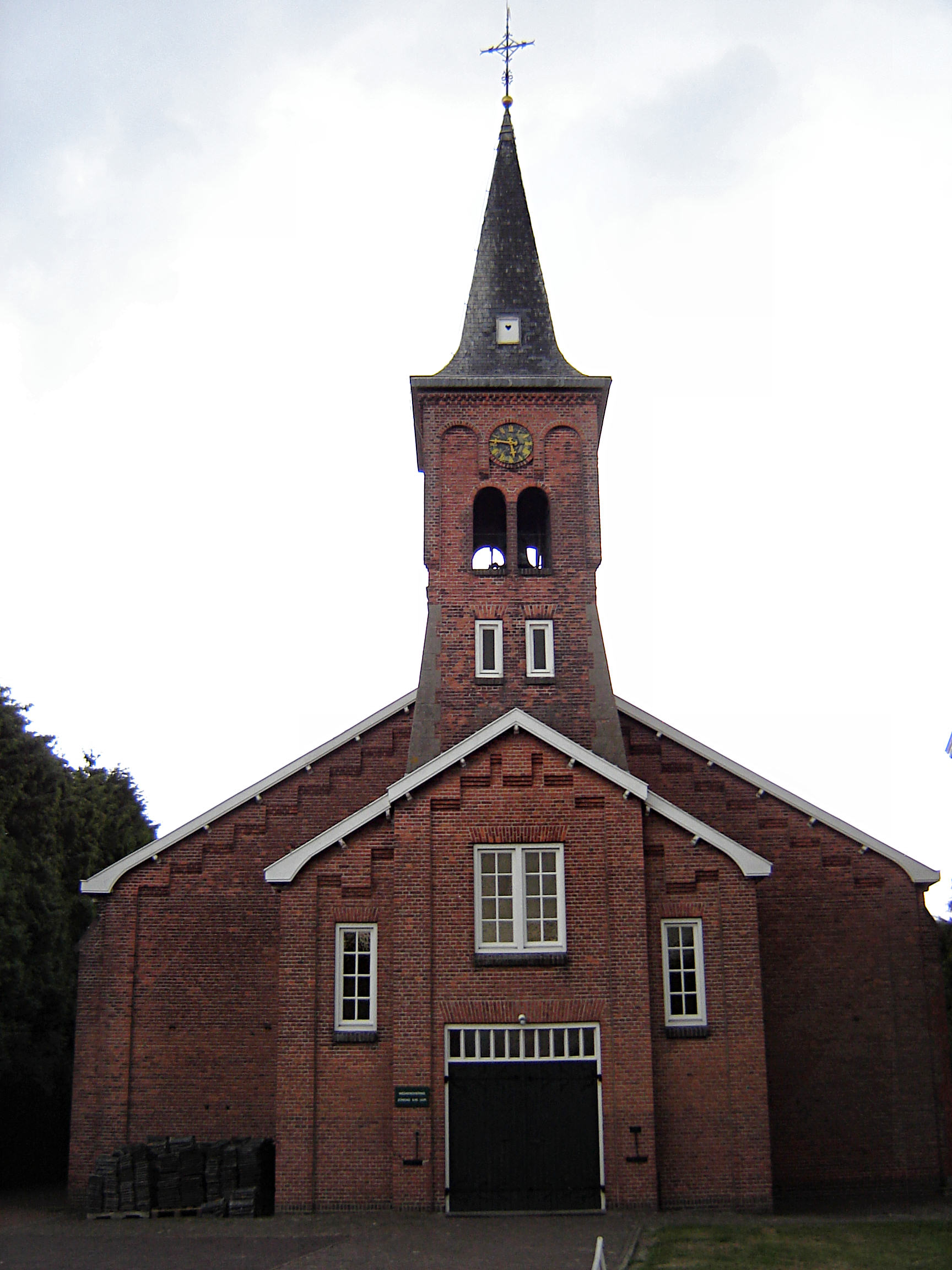 Church of Saint Gerard Majella in Terhole. Terhole, Hulst, Zeeland, Netherlands.